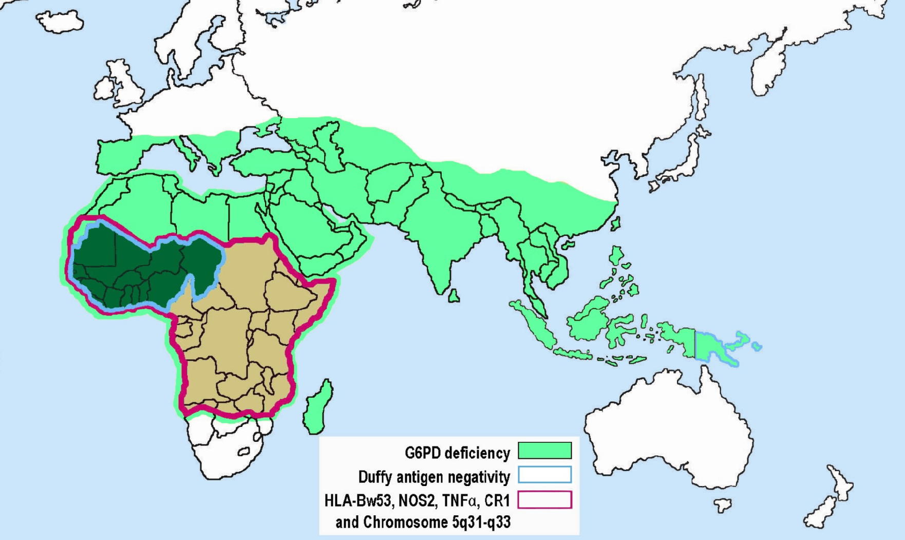 Description Malaria versus enzymopathies and immunogenetic variants